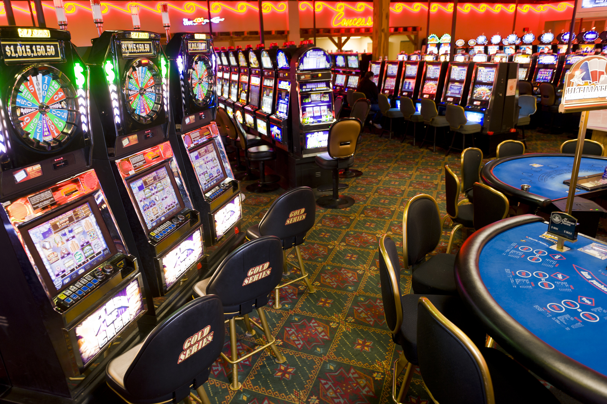 Gaming machines and card tables at Treasure Valley Casino in Davis, Oklahoma.